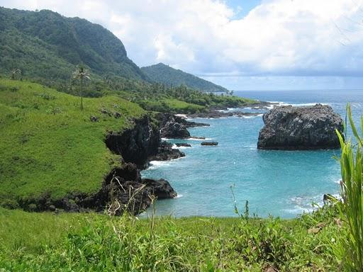 Annobon Island Equatorial Guinea